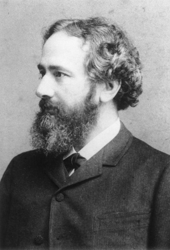 Lujo Brentano (not: Ludwig Joseph Brentano), German economist and social reformer GND 118673874